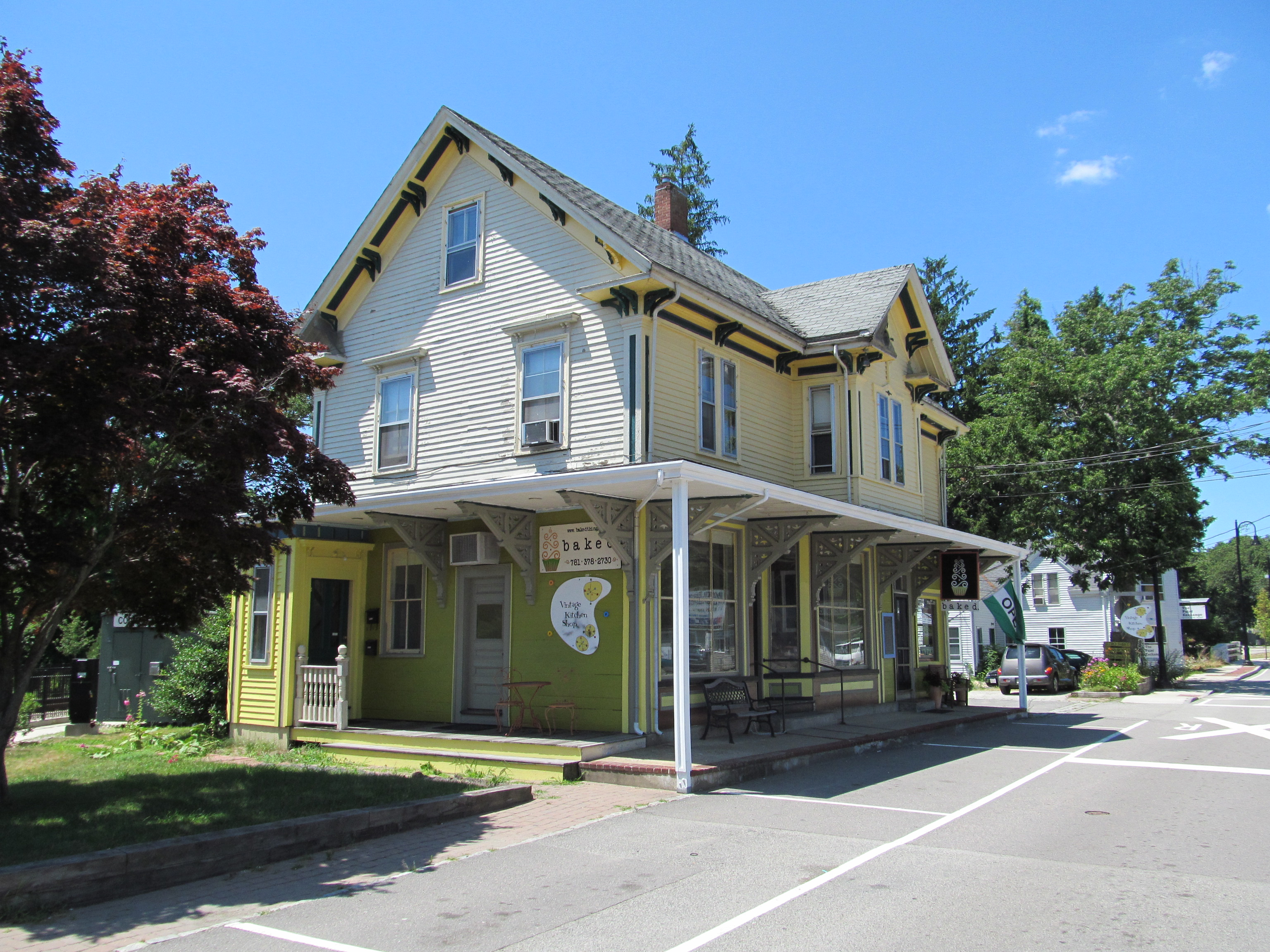 Baked, North Scituate Massachusetts